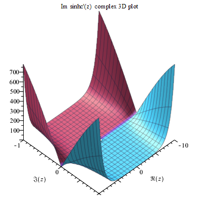 Sinhc'(z) Im complex 3D plot